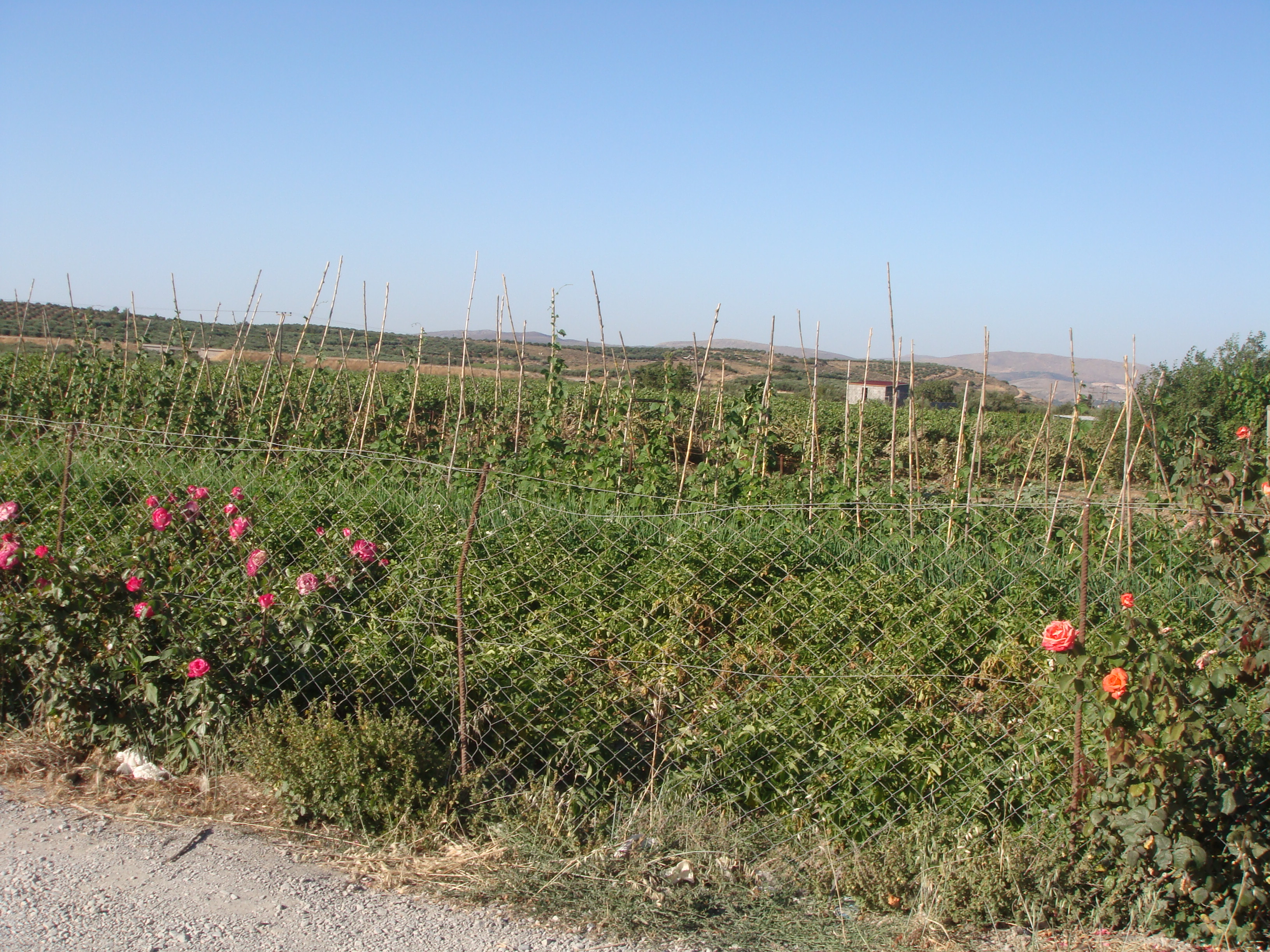 A view from Alagni, Iraklion Prefecture.